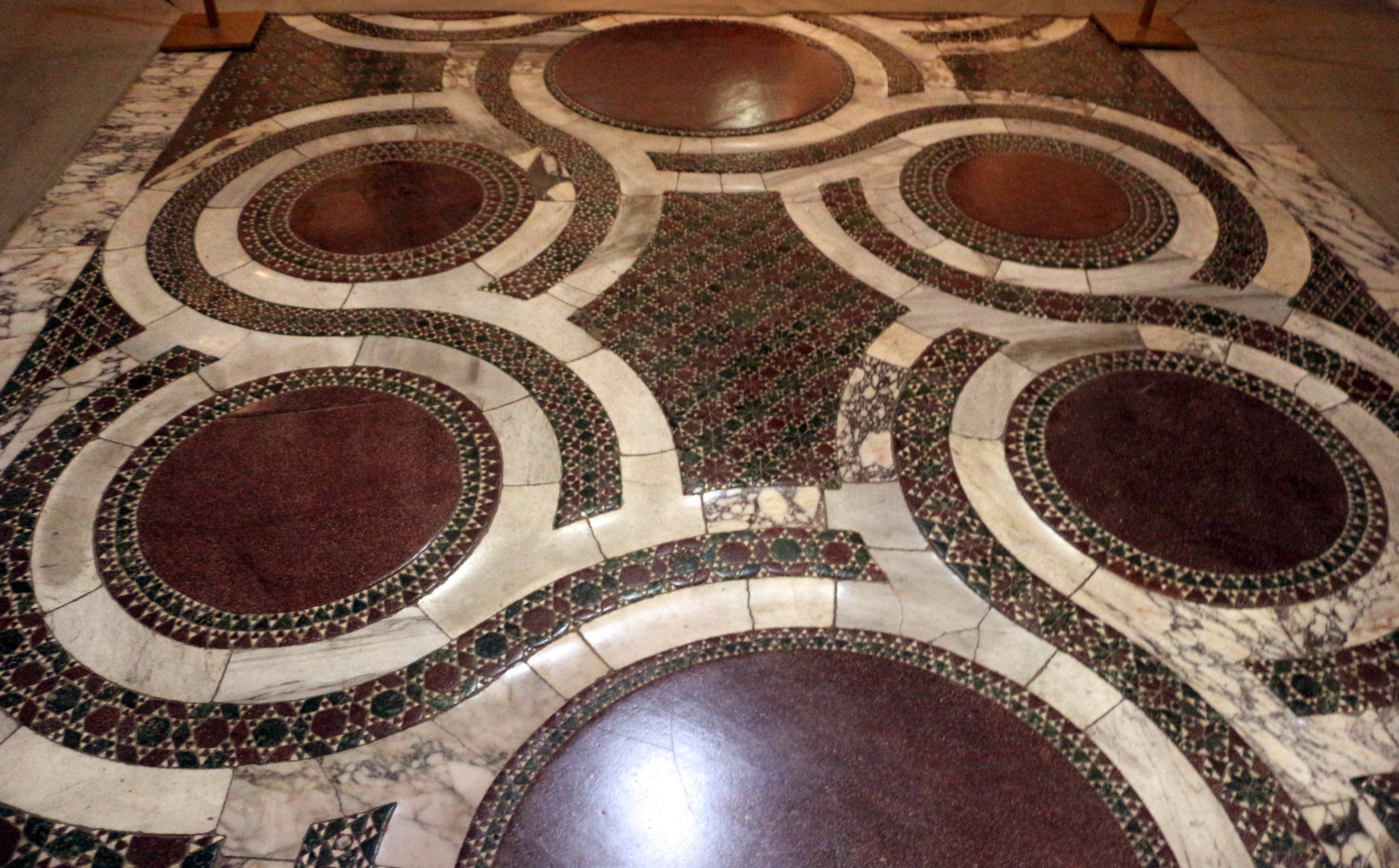 Sancta Sanctorum (Rome)